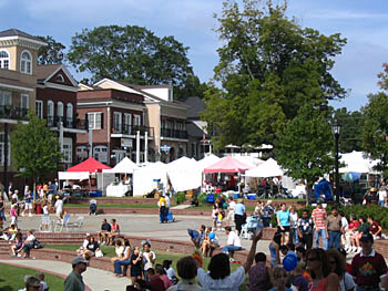 2004 Barefoot in the Park on Duluth Town Green-photography by Different Duck Photos